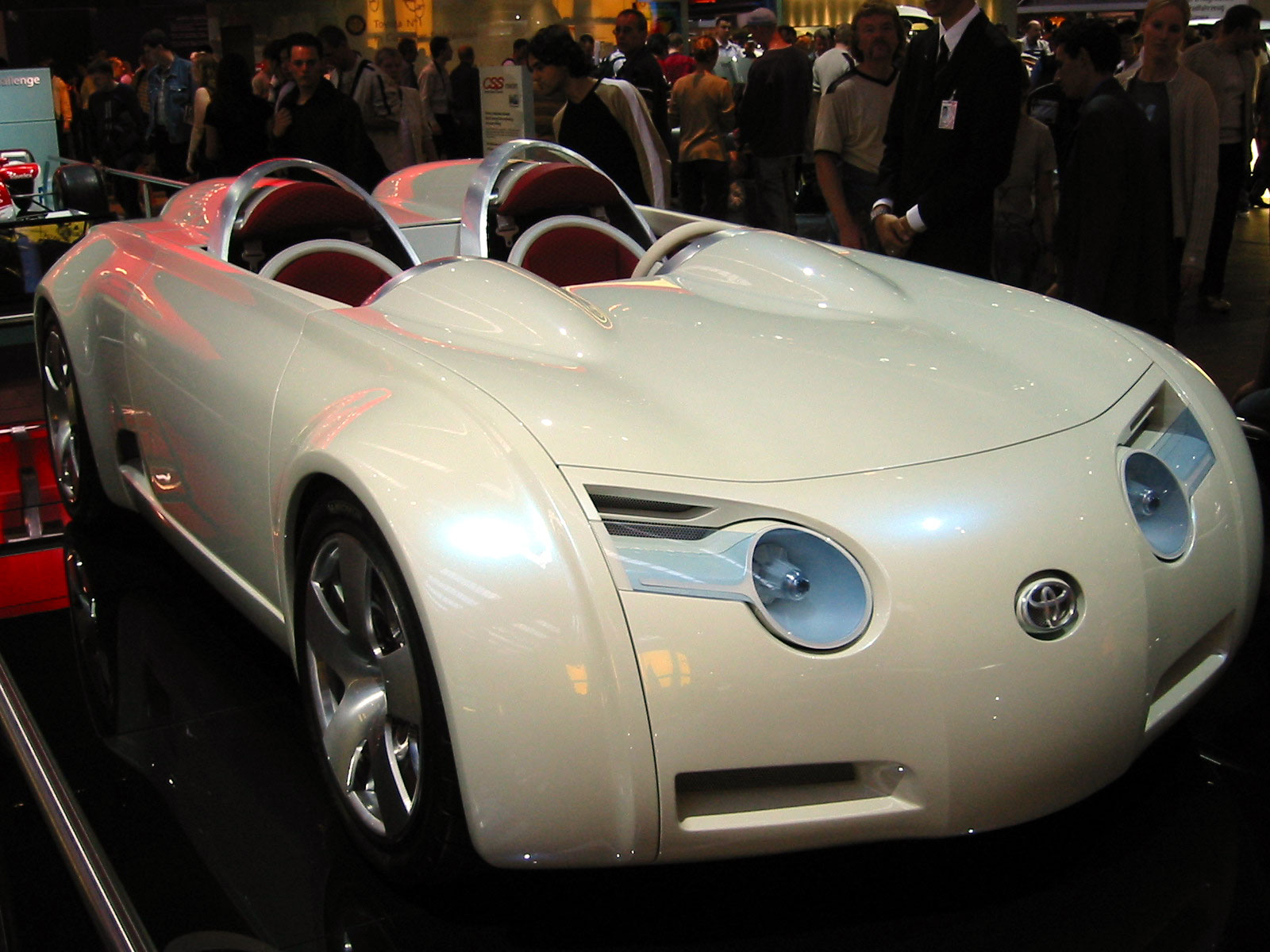 Toyota CS&S at the IAA 2003